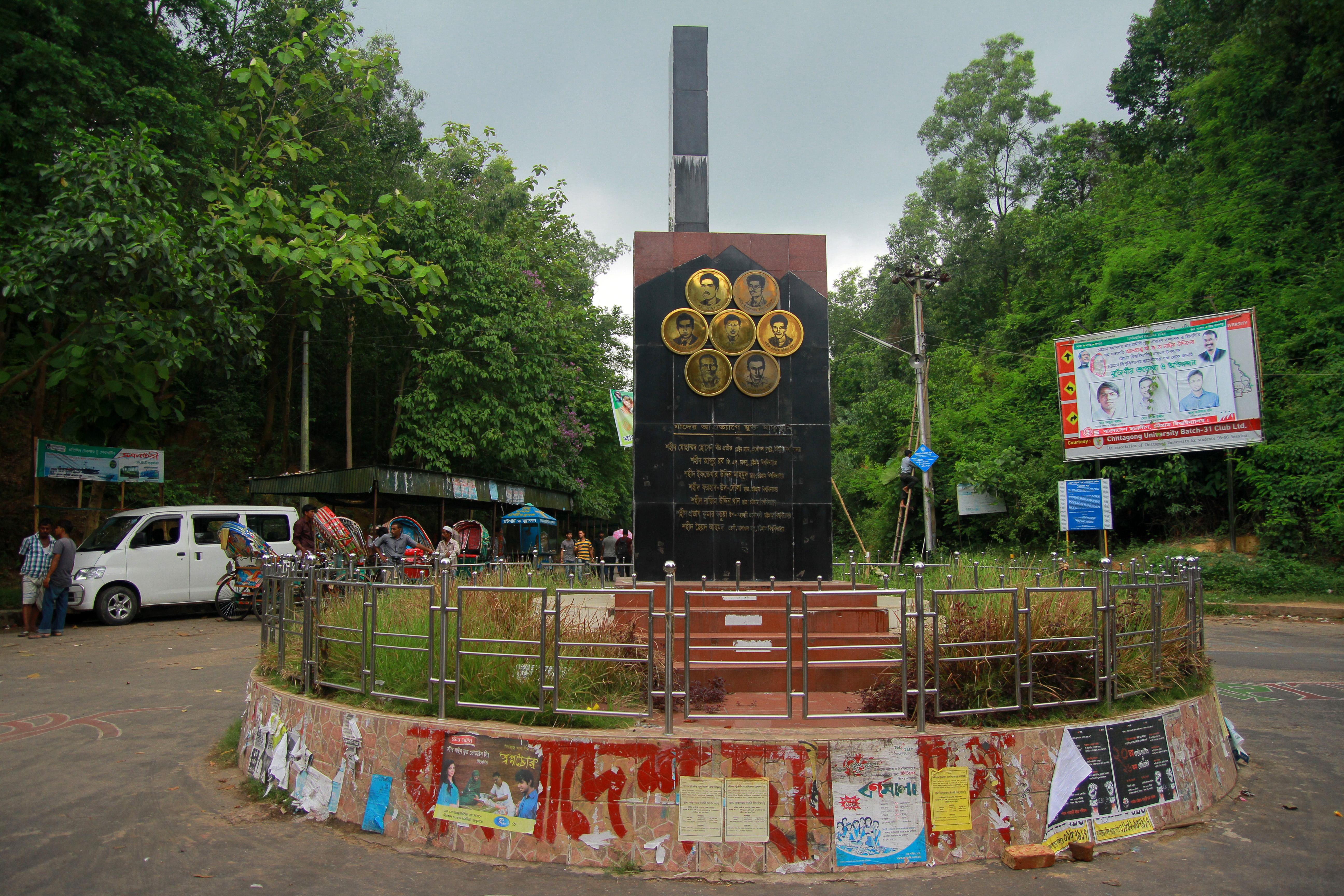 Swaran, Monument at University of Chittagong. (font, eastern, view)